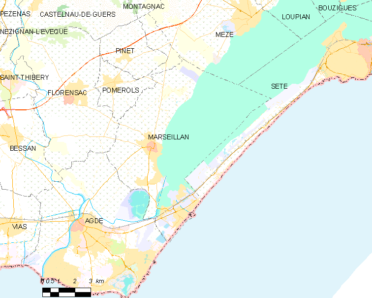 Map commune FR insee code 34150.png - Marseillan (Hérault)